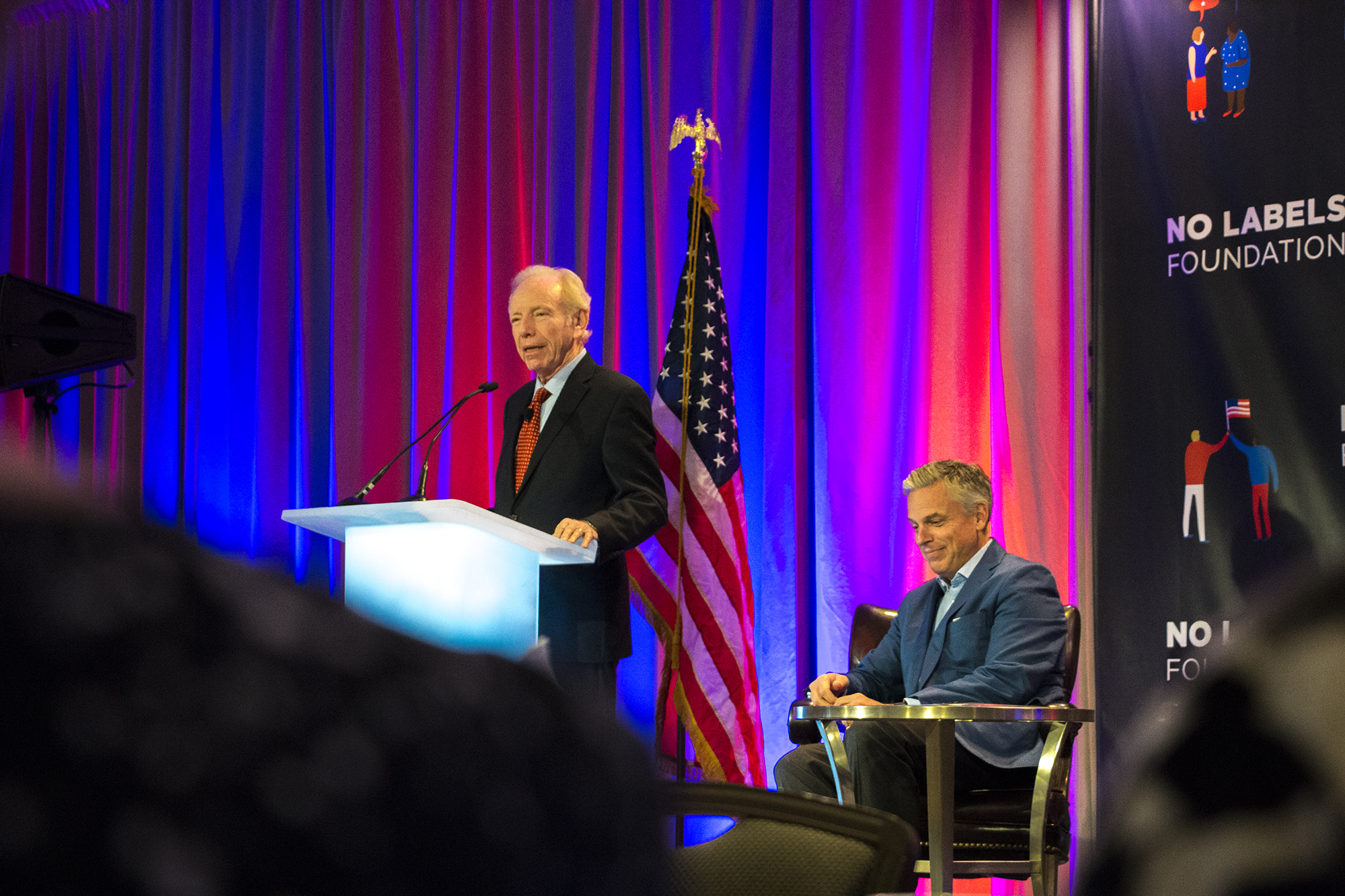 On October 6, The No Labels Foundation hosted the New Hampshire Governor's Forum, featuring Democratic candidate Colin Van Ostern and Republican candidate Chris Sununu. The two candidates engaged in a substantive discussion with over 500 New Hampshire voters, steered by No Labels Co-Chairs Gov. Jon Huntsman and Sen. Joe Lieberman.